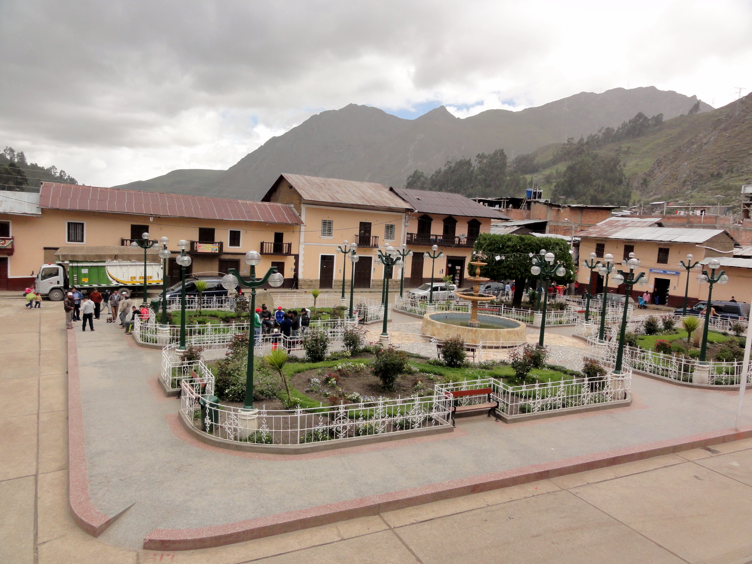 Huallanca Main Square